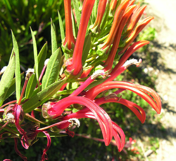 A southern Chile species, here at the San Francisco Botanical Gardens. In context at